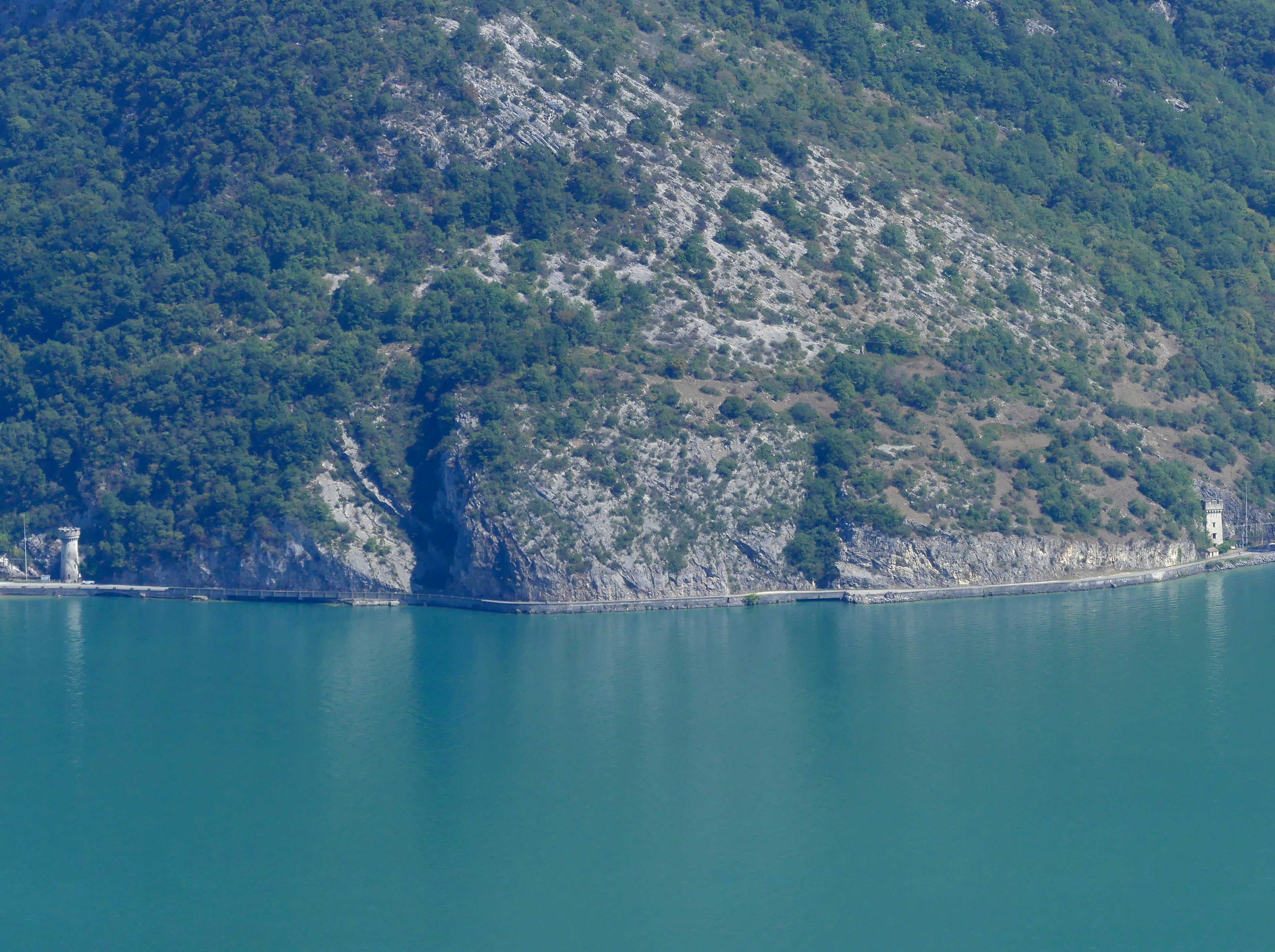 Sight, from the heights of the Charvaz mount, on the opposite side of the Bourget lake, of the Tunnel de Brison railway tunnel whose tower entrances are visible on each side, in Savoie, France.